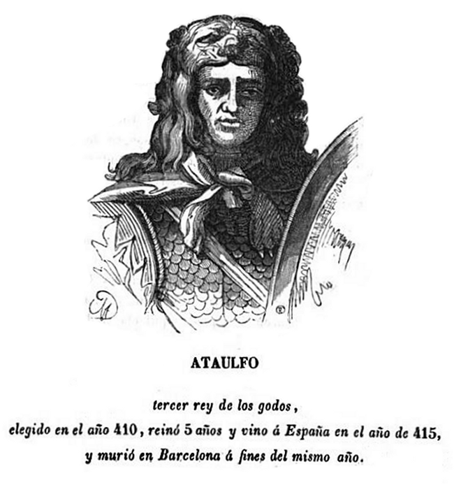 Drawing portrait of Visigoth king, printed into the book with N° 3 ATAÚLFO I